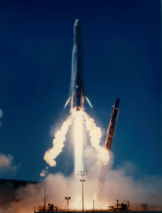 Atlas-E/-F with solid fuel upper stage (ICBM converted to satellite launcher) launching military payload